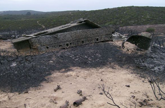 The purpose of the fire was to clear vegetation so it will be safe for cleanup workers to remove unexploded munitions and explosives left over from when Fort Ord was an Army training center.